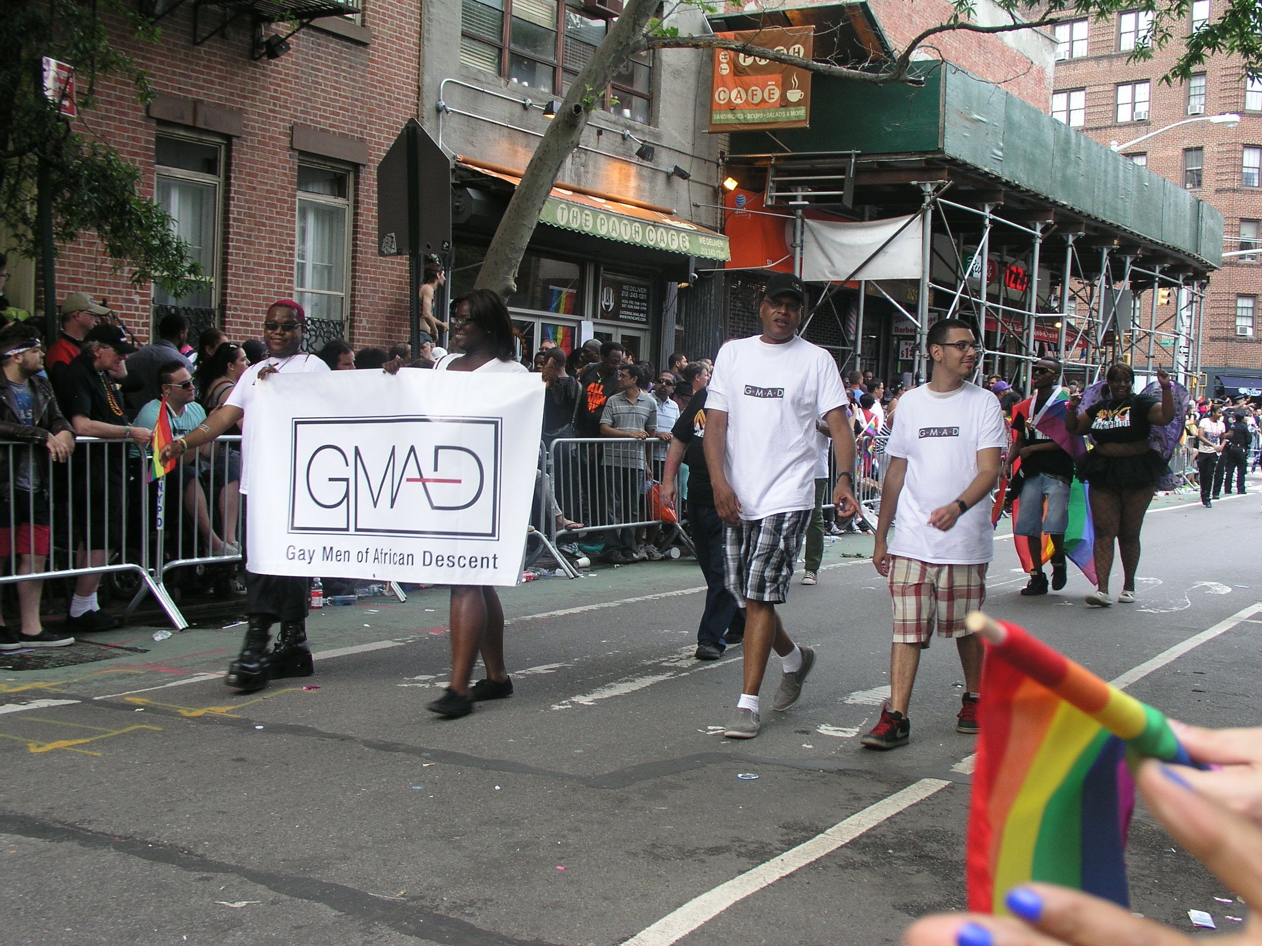 Wiki Loves Pride 2015 New York Pride